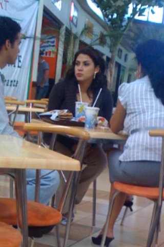 Fountain in the Gran Centro Los Próceres shopping complex cafe in Guatemala City